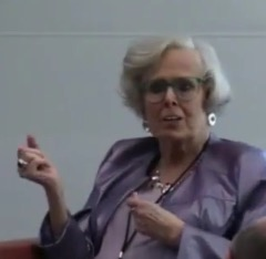 Susan Nutter Speaking at a Transforming Libraries - Looking Forward and Looking Back conference.